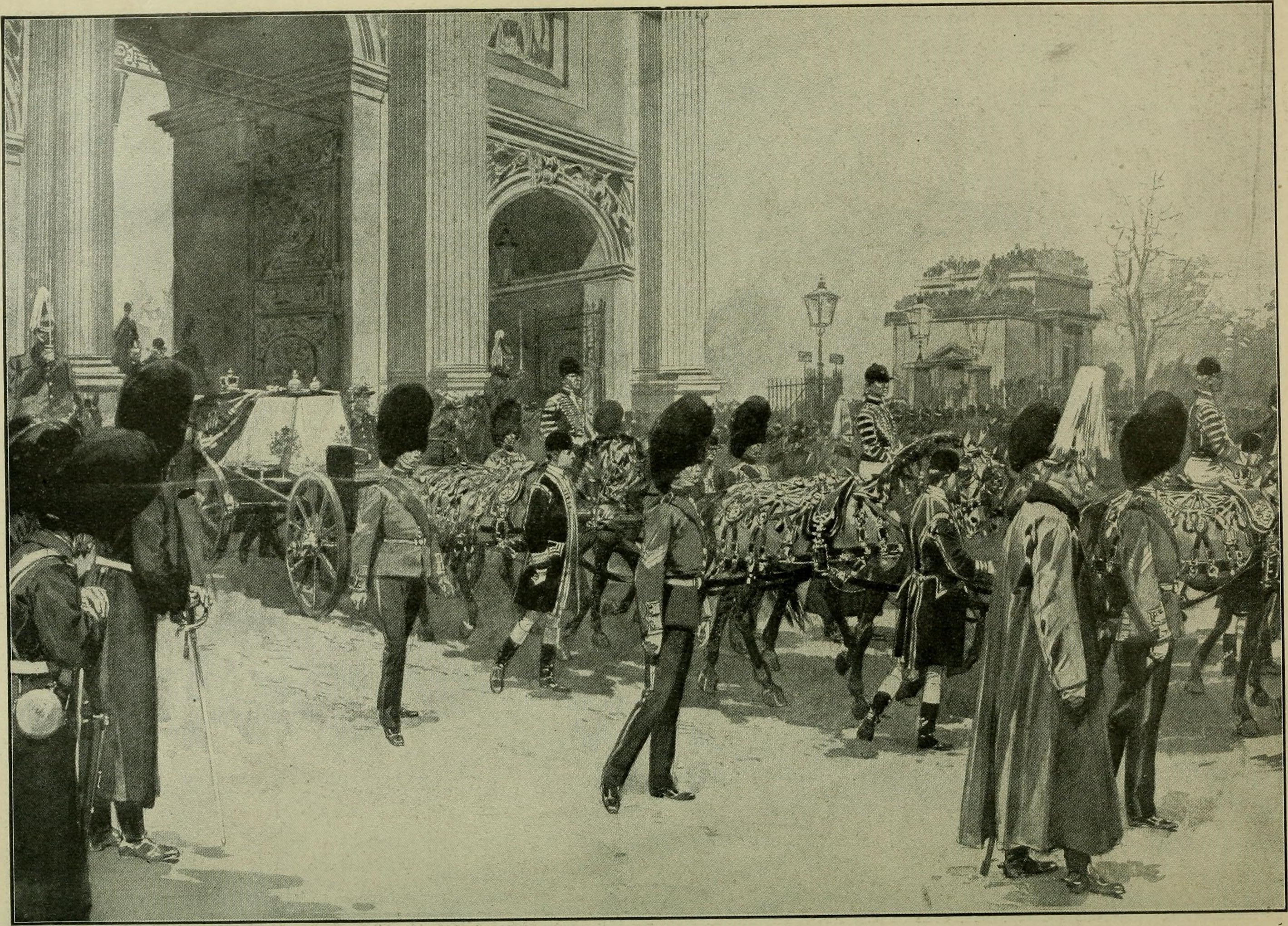 Queen Victoria's last progress through London Title: Queen Victoria, her grand life and glorious reign; a complete story of the career of the marvelous queen and empress, and a life of the new king, Edward VII, with a brief history of England Year: 1901 (1900s) Authors: Coulter, John, ed Victoria, Queen of Great Britain, 1819-1901 Cooper, John A. (John Alexander), b. 1868, joint ed Subjects: Publisher: (Chicago, H. Neil) Text Appearing Before Image: ' Text Appearing After Image: '